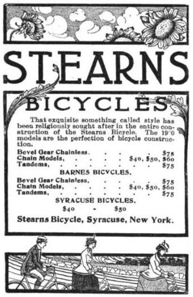 Stearns Cycle Company of Syracuse, New York - Advertisement 1900